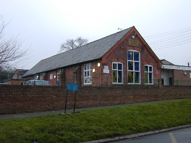 Sychdyn CP School.